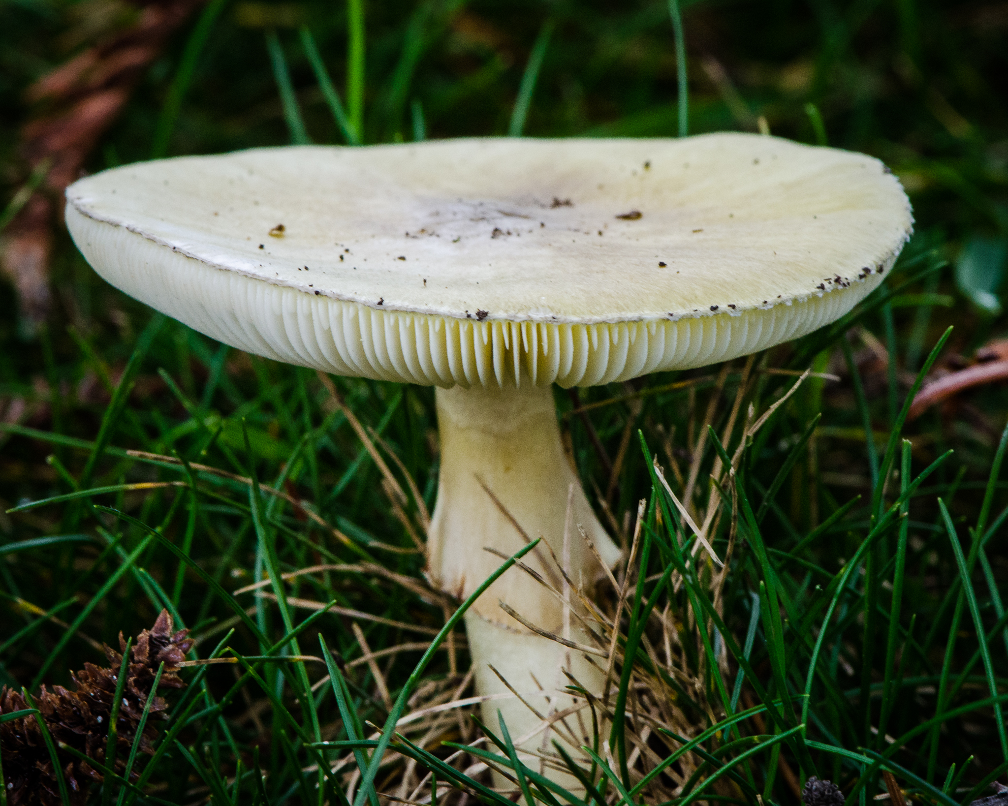 Amanita phalloides - Death Cap